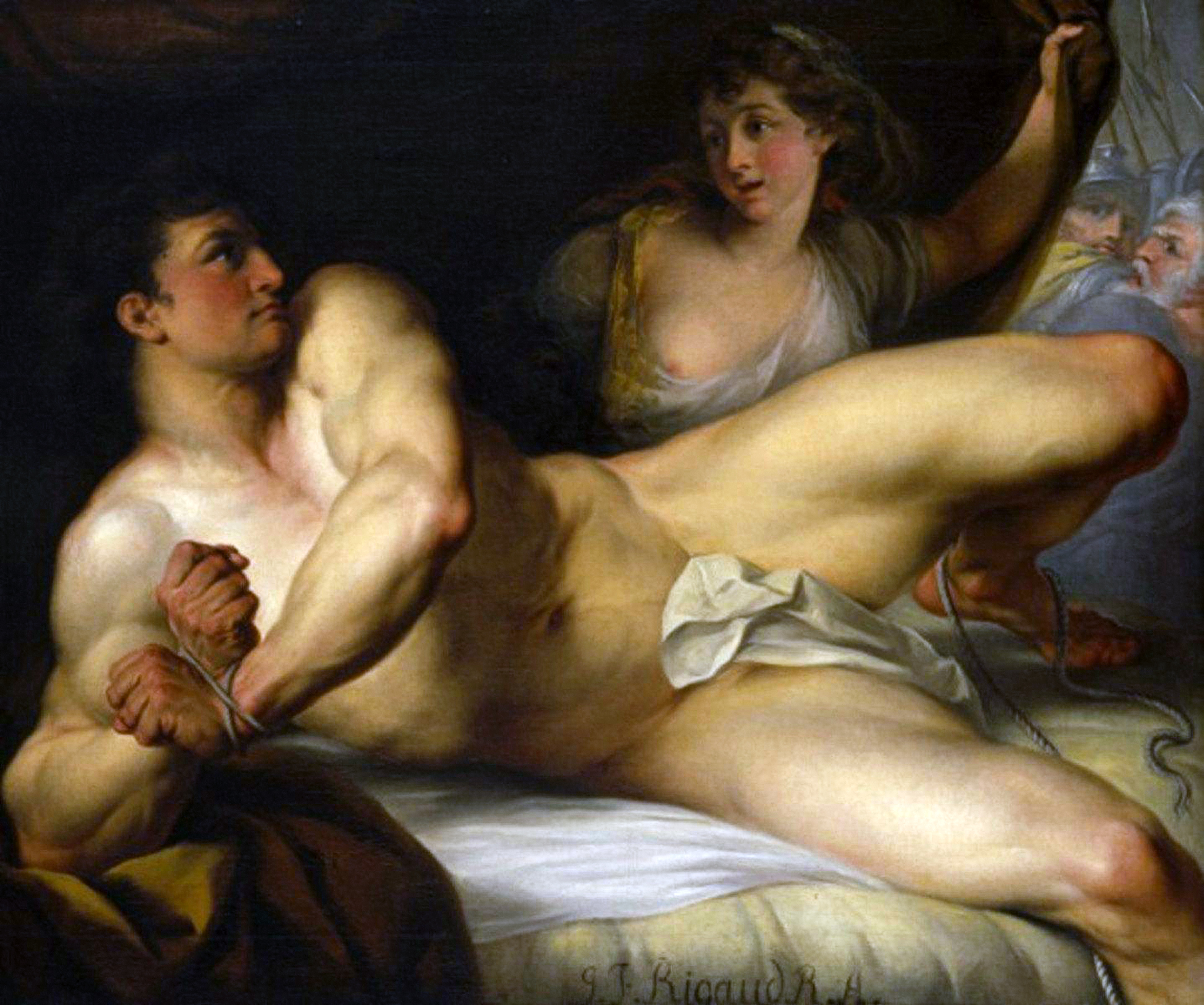 Samson breaking his bands or Samson and Delilah